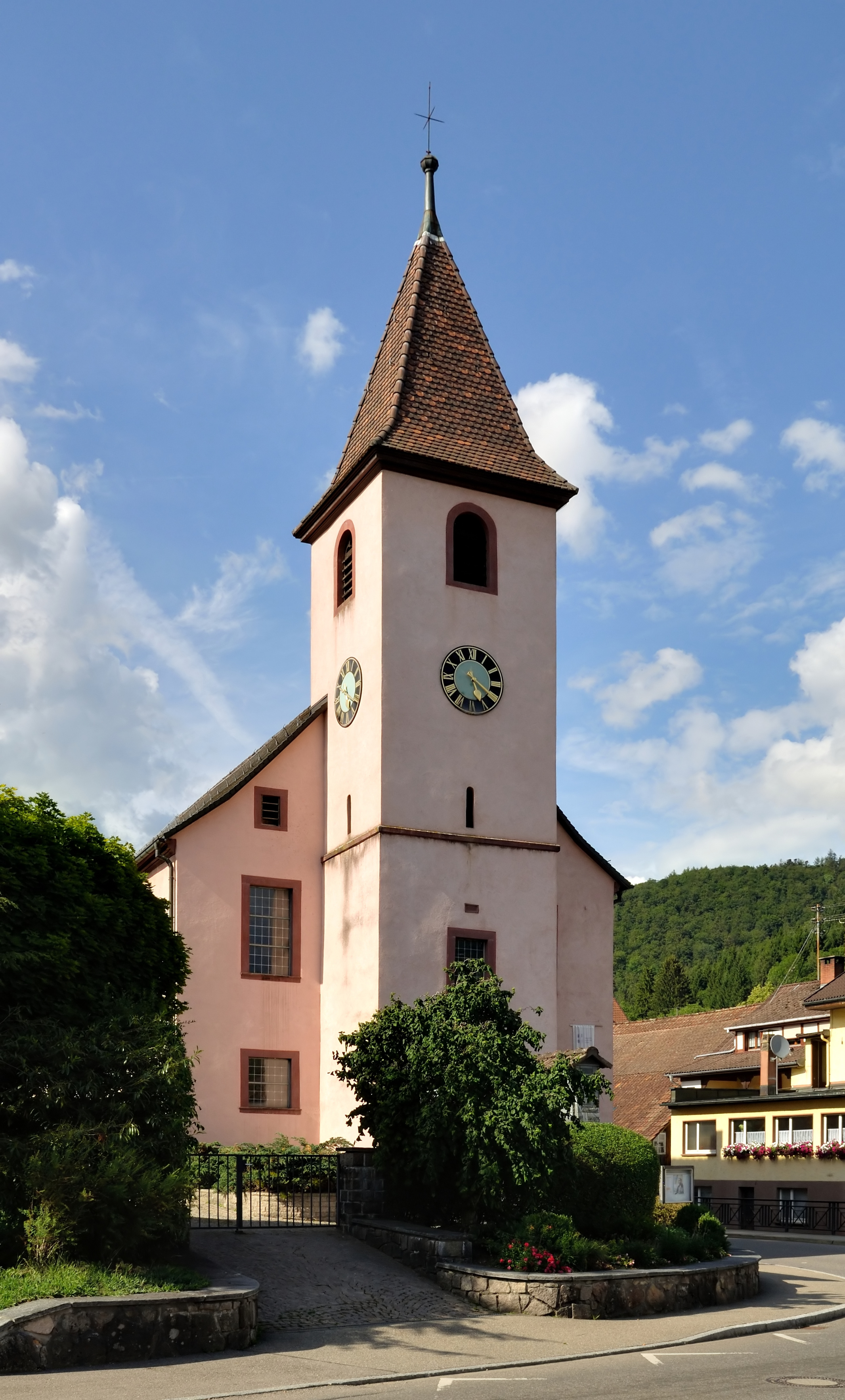 Hasel: Protestant Church